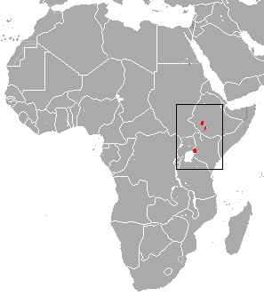 Zaphir's Shrew (Crocidura zaphiri) range